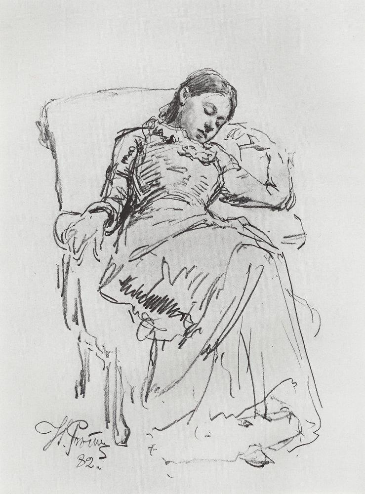 Leisure, study